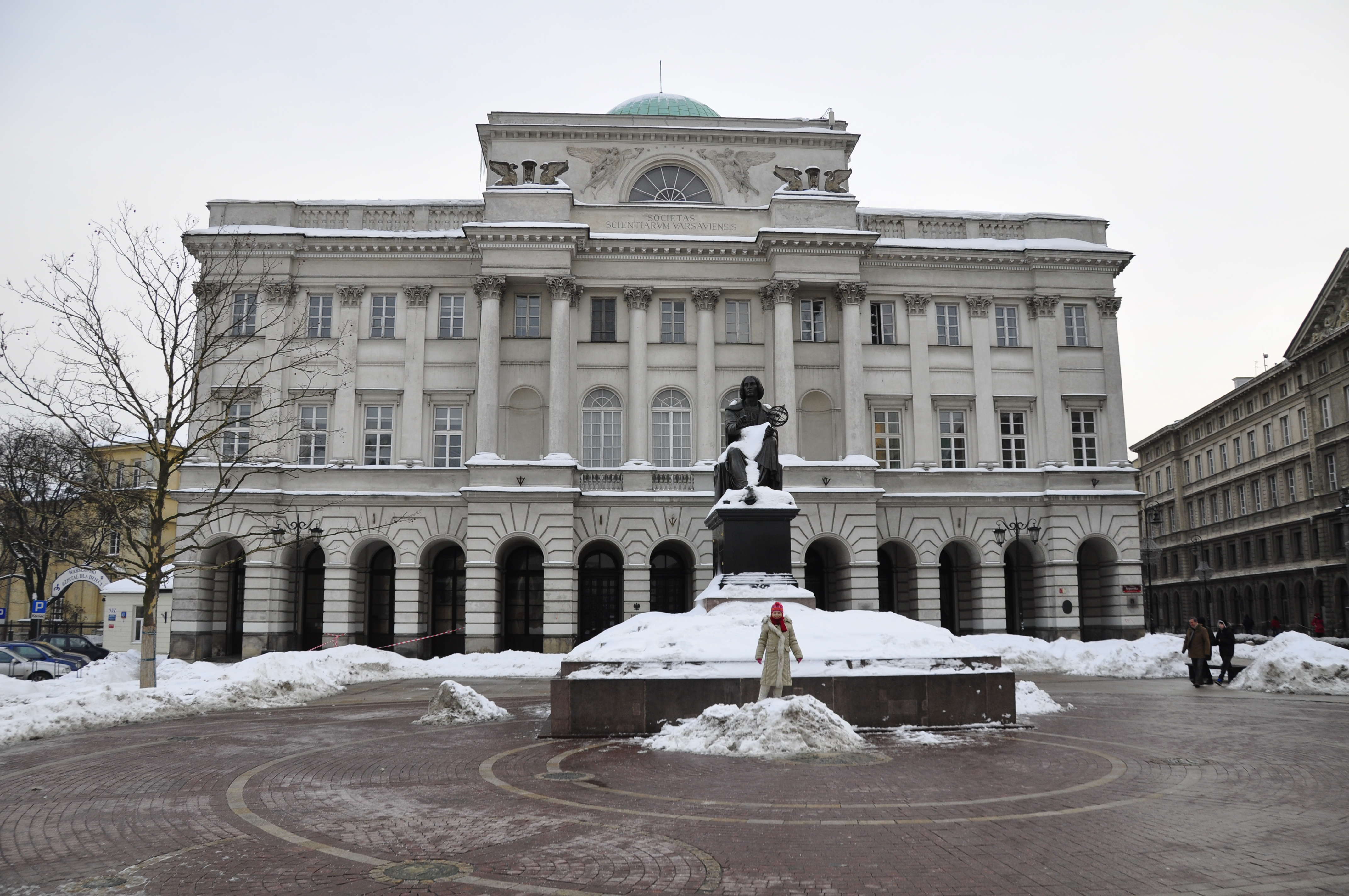 Warsaw. Nowy Swiat/Krak. Przed. statue of Mikołaj Kopernikus in front of the palace Staszica, ul. M. Kopernika, from north